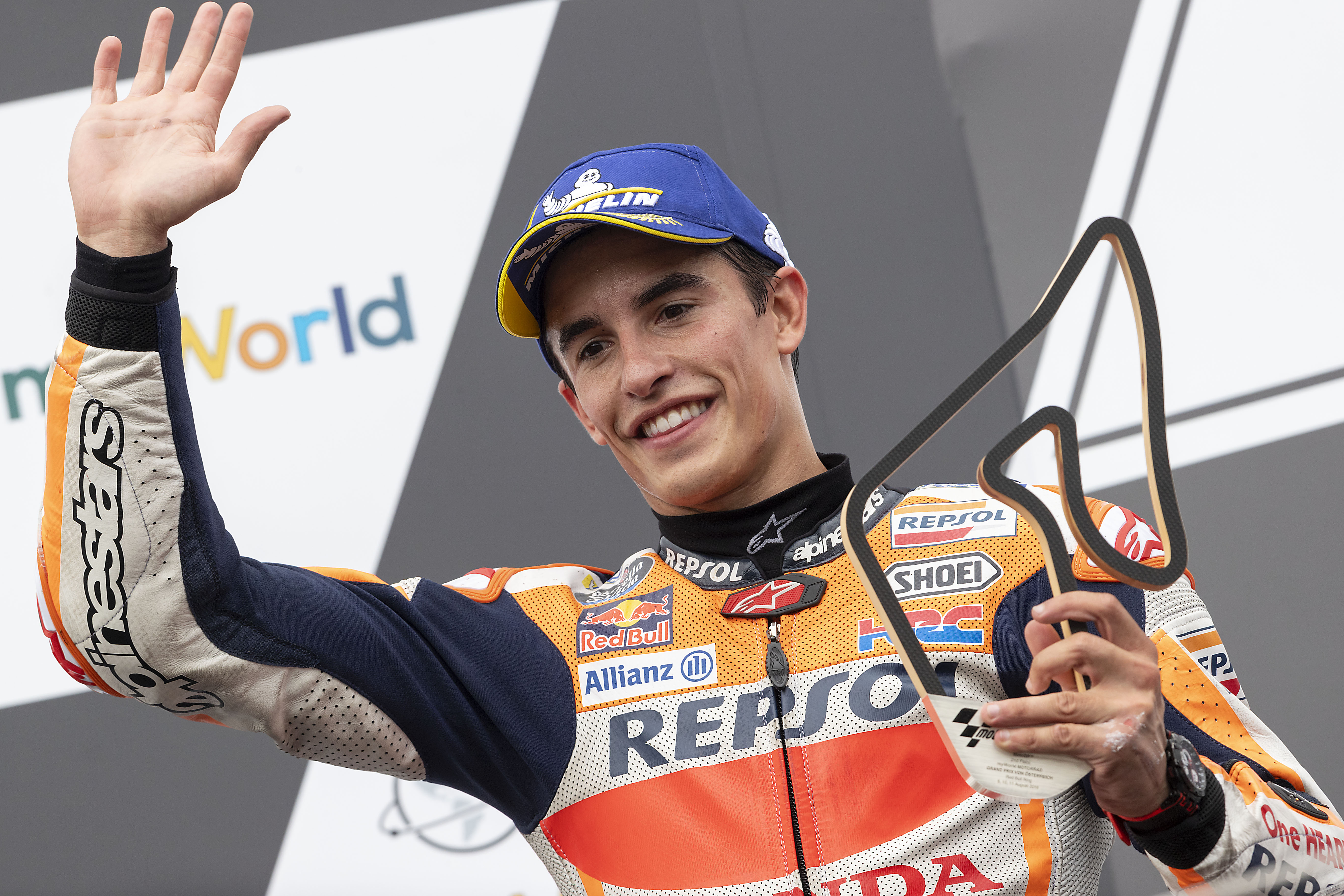 Marc Márquez, holding his trophy and celebrating on the podium after finishing in second place at the 2019 Austrian Grand Prix.